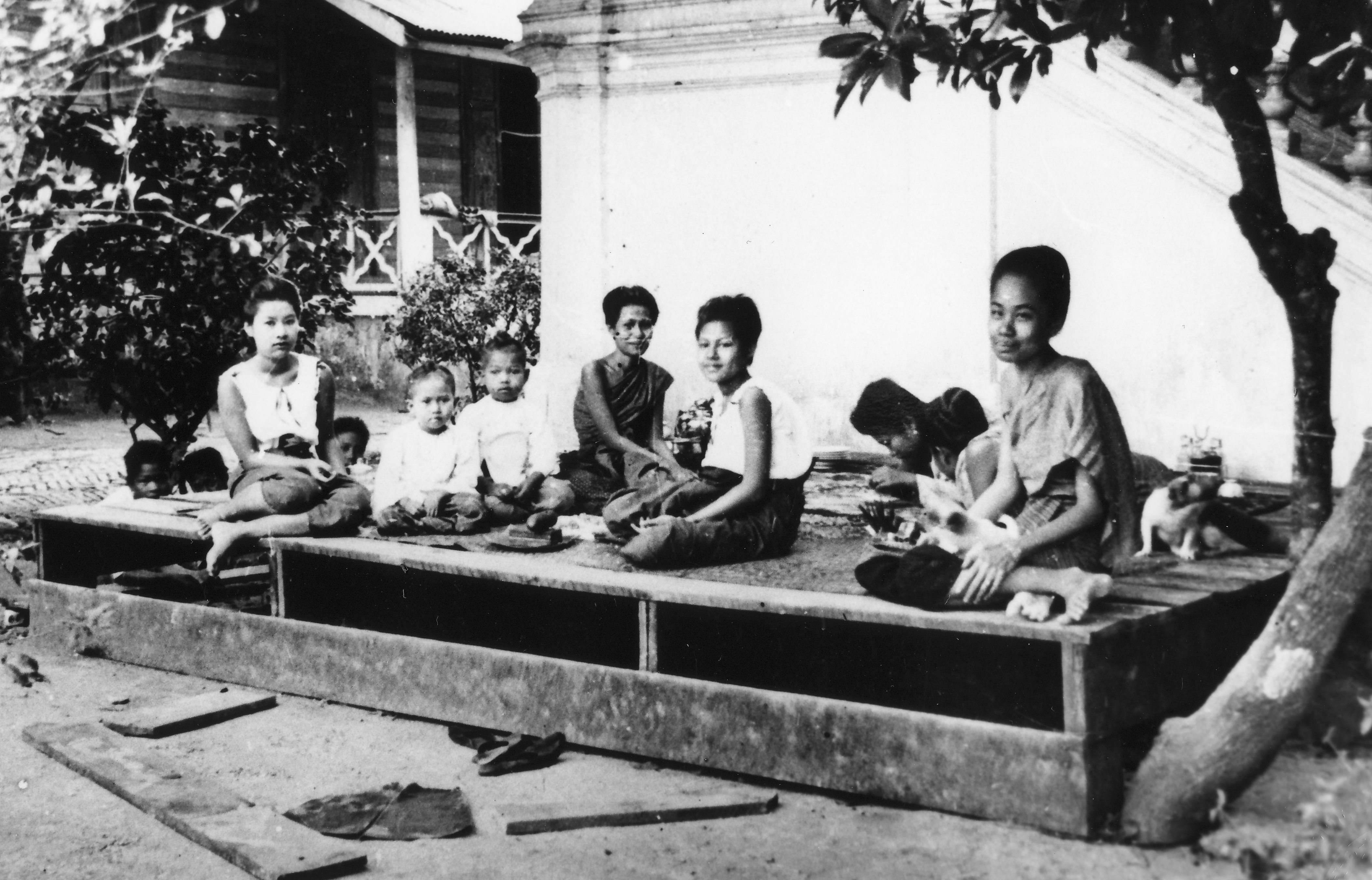 ผู้ถ่ายภาพ ไม่ทราบ